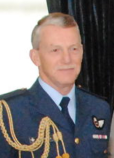 Air Vice Marshall Peter Stockwell, Chief of Air Force, at Government House, Wellington, on 23 May 2013